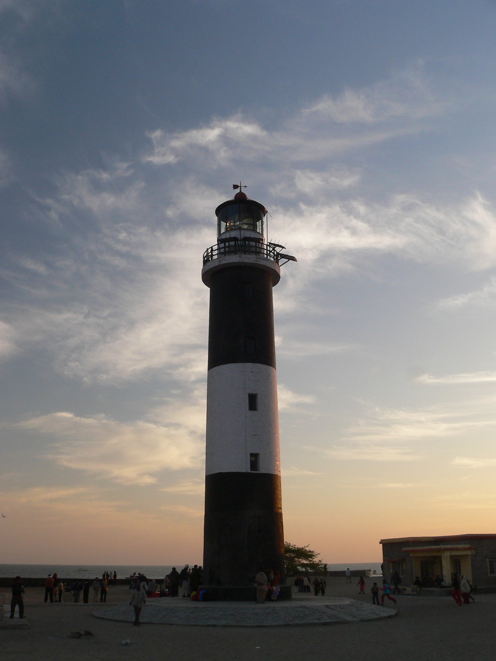 View of Light house at Pirotan Island, Jamnagar at sunrise